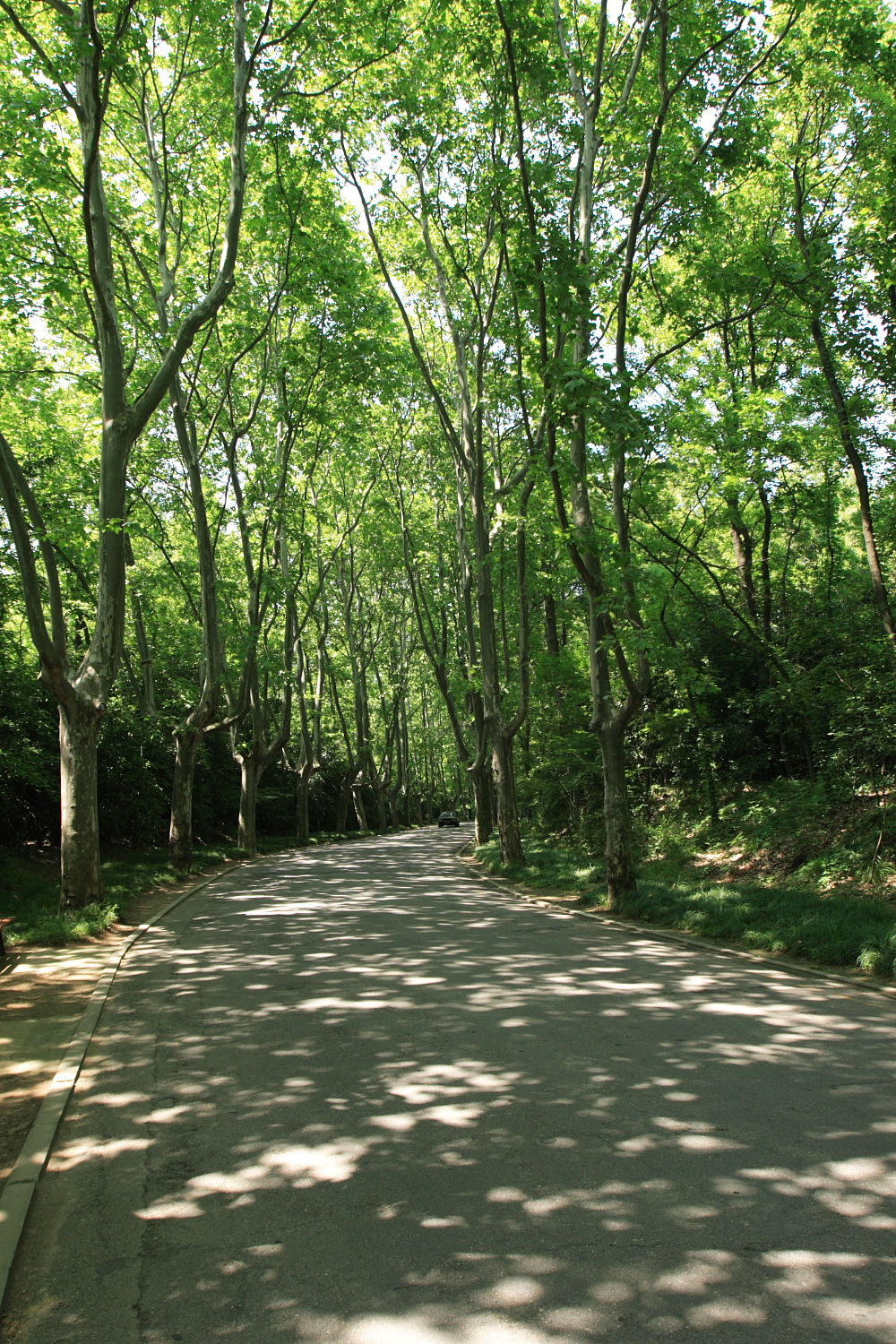 Road on Purple Mountain,Nanjing